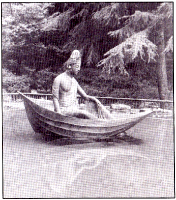 An image of a statue representing a spiritual vision that Zen Master Dōgen had, while returning to Japan from China. The ship he was on was caught in a storm, and all aboard feared they would die, whereby Dōgen led the grew in recitation of chants to Avalokiteshwara. A vision of Avalokiteshwara appeared before Dōgen and several of the crew, and afterwards the storm abated and they made it to Japan safely. The vision is memorialized in this statue at a pond in Eihei-ji Temple in Japan.